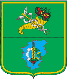 Coats of arms of Zolochivskyj raions